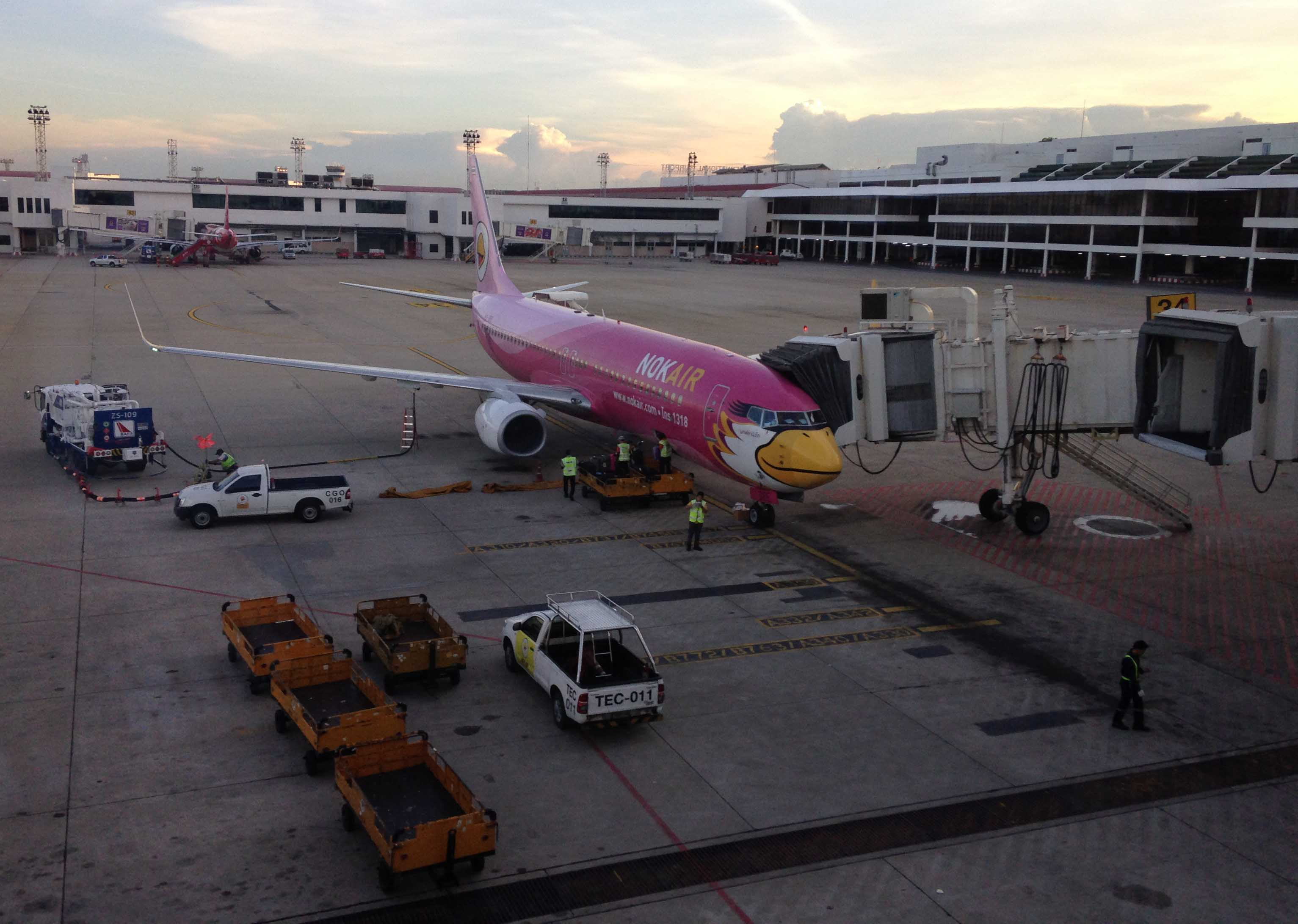 Nok Air Boeing 737-800 reg.HS-DBE